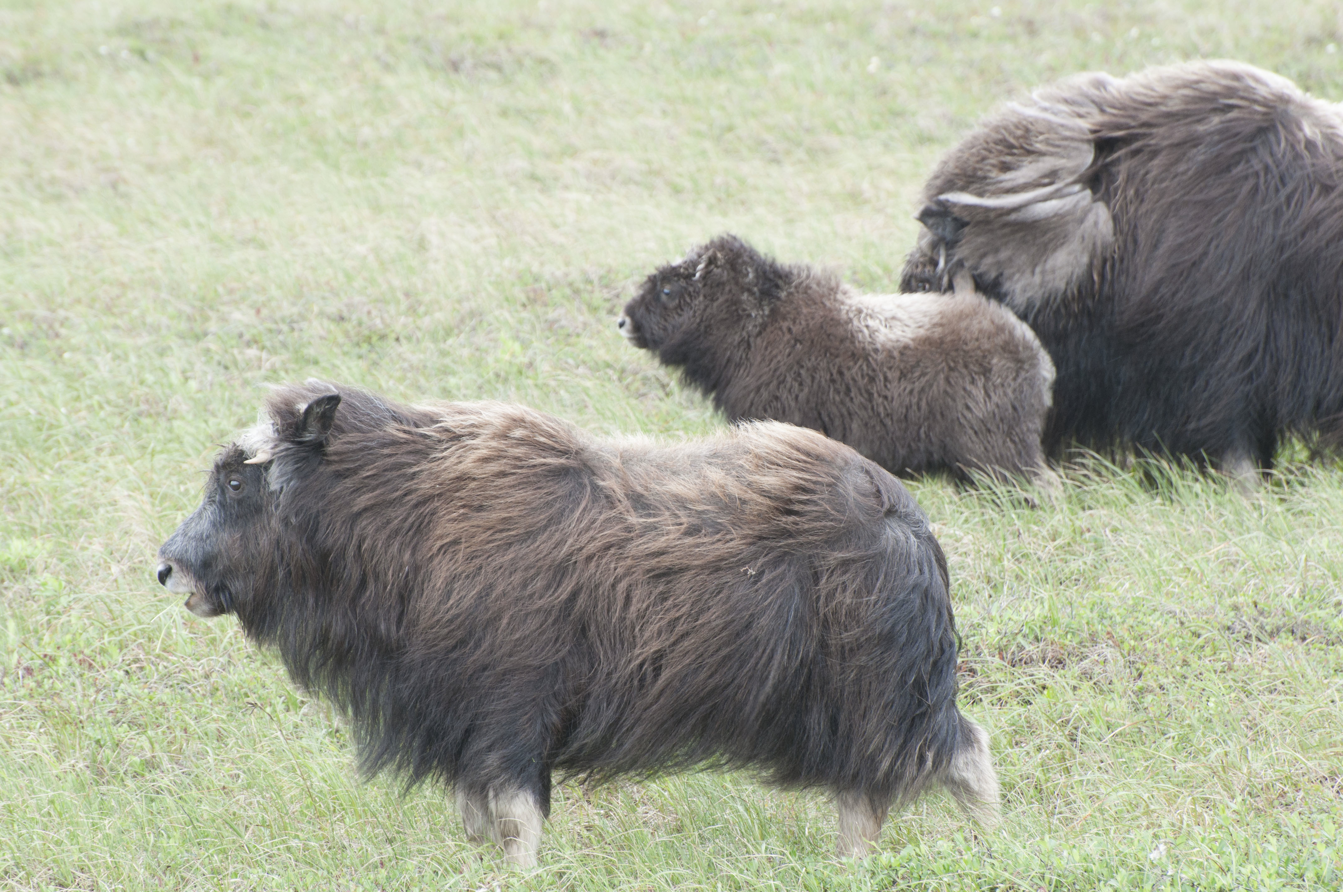 Muskoxen have a distinctive warm, brown, shaggy coat that helps keep them warm throughout the winter. Under the shaggy, longer guard hairs is the qivuit. This layer is fine and soft, and akin to wool. It's super insulating.